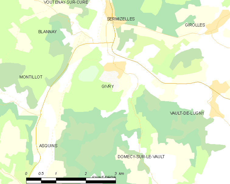 Map of French municipality Givry